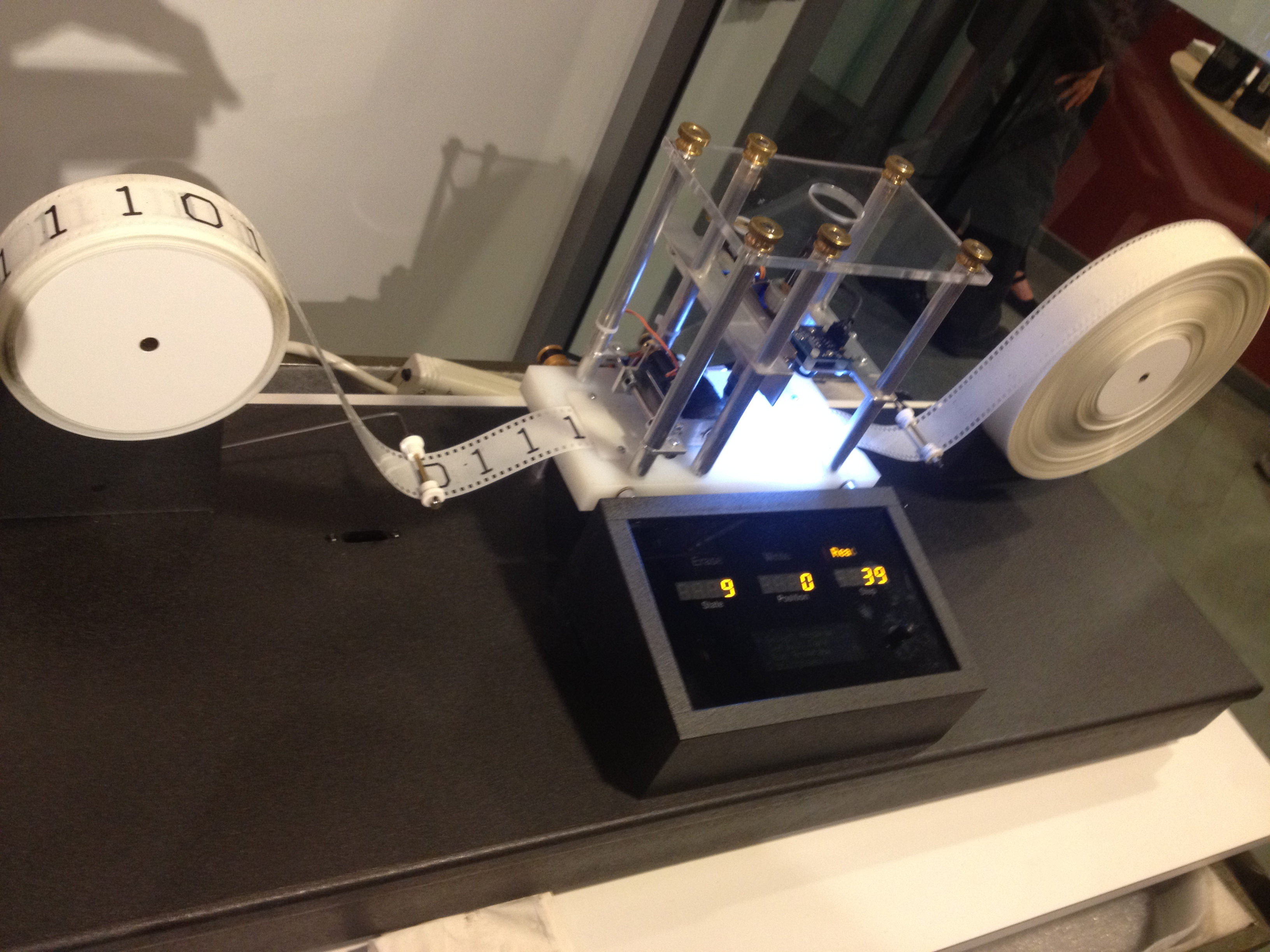 As seen at the Go Ask Alice exhibit at the Harvard Collection of Historical Scientific Instruments. The builder's website is